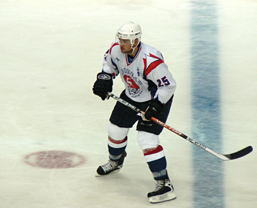 Ice hockey player Yuri Butsayev of Torpedo Nizhny Novgorod at the 2007 Tampere Cup